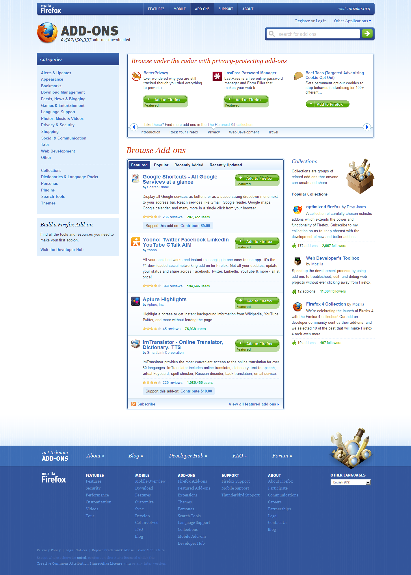 Screenshot of the official Add-ons page for firefox